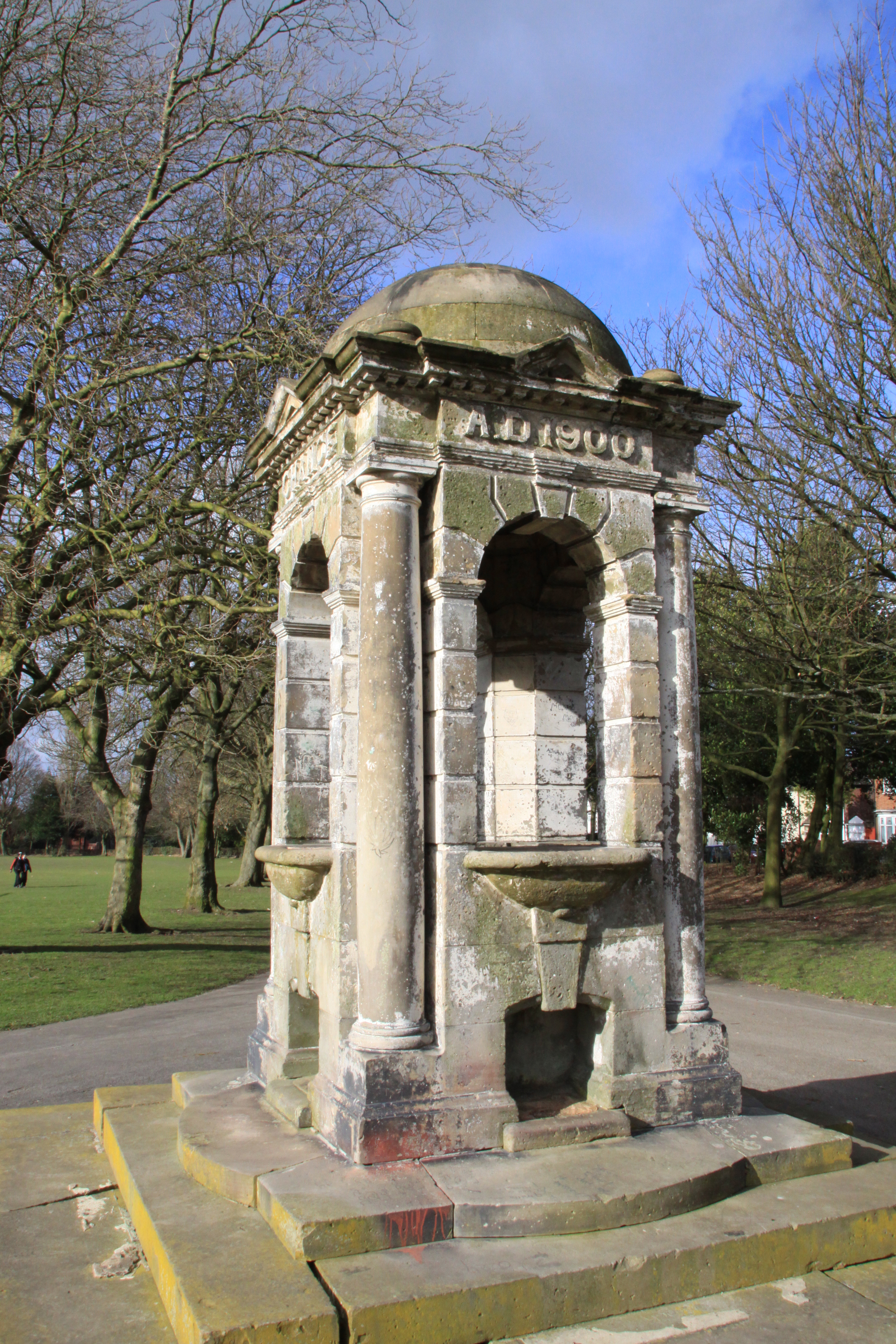 Chance water fountain West Smethwick park. Commemorates John Chance, chairman of Chance Brothers & Co. Ltd, who died in November 1900.